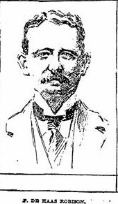 Major League Baseball executive Frank DeHass Robison